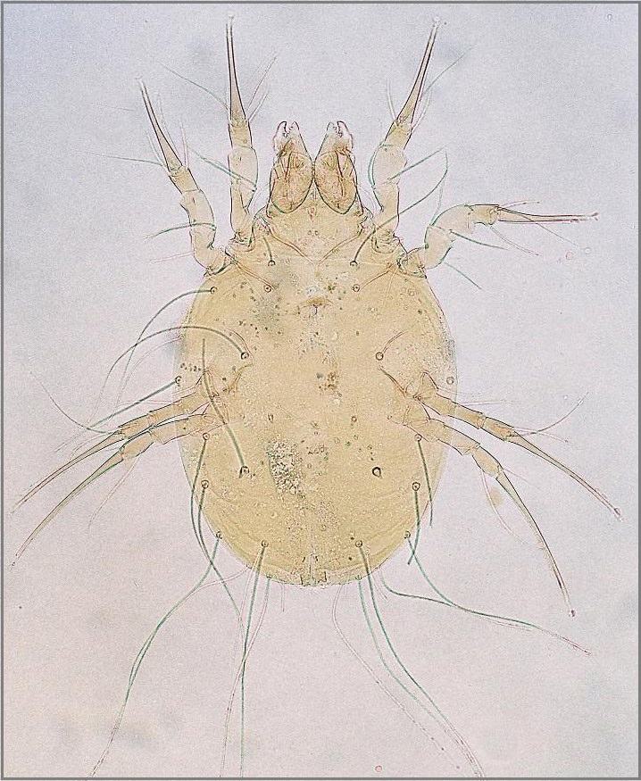 Photograph of a mite causing allergy in domestic animals.